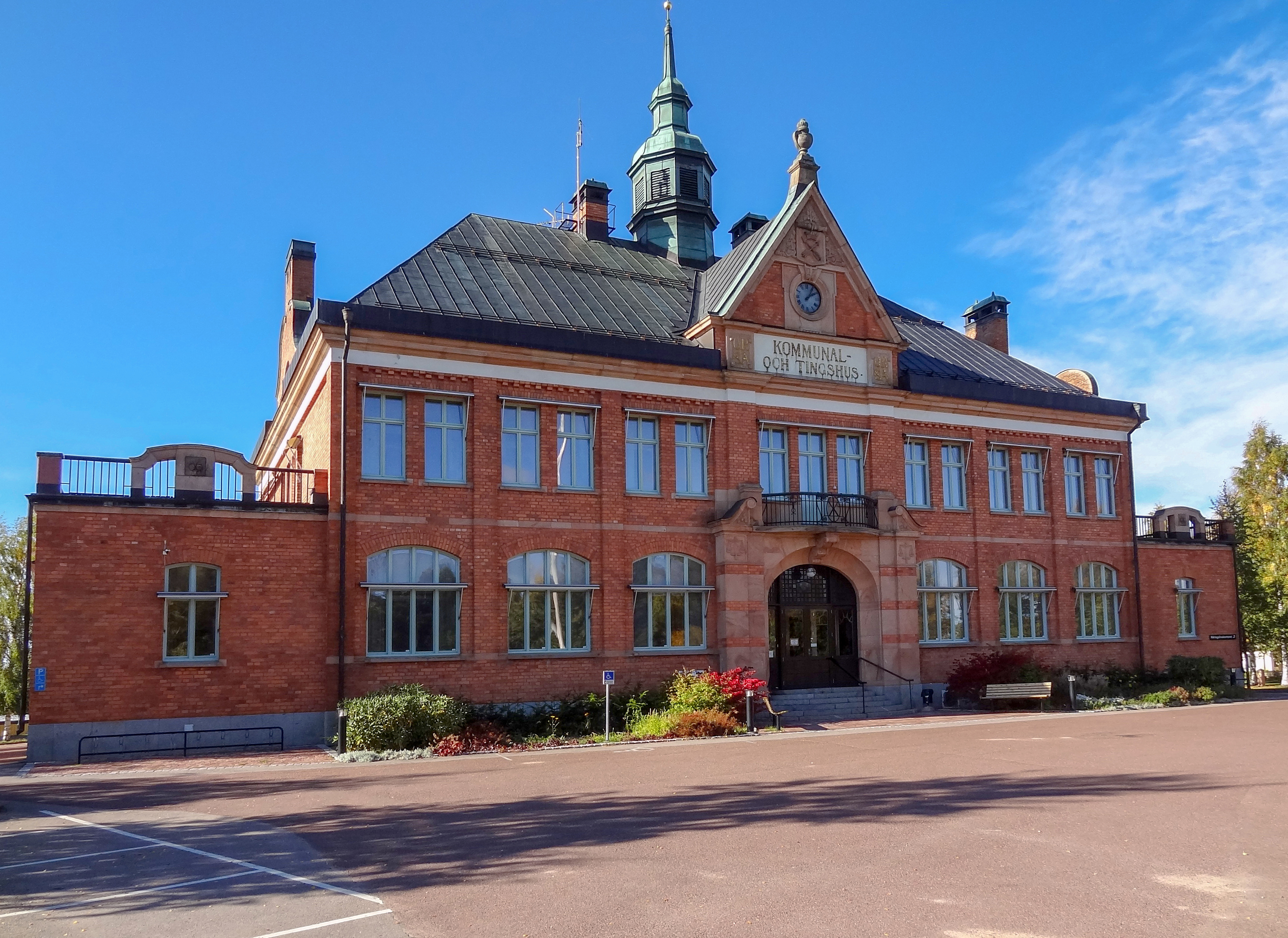 Townhall in Orsa, Dalarna county, Sweden